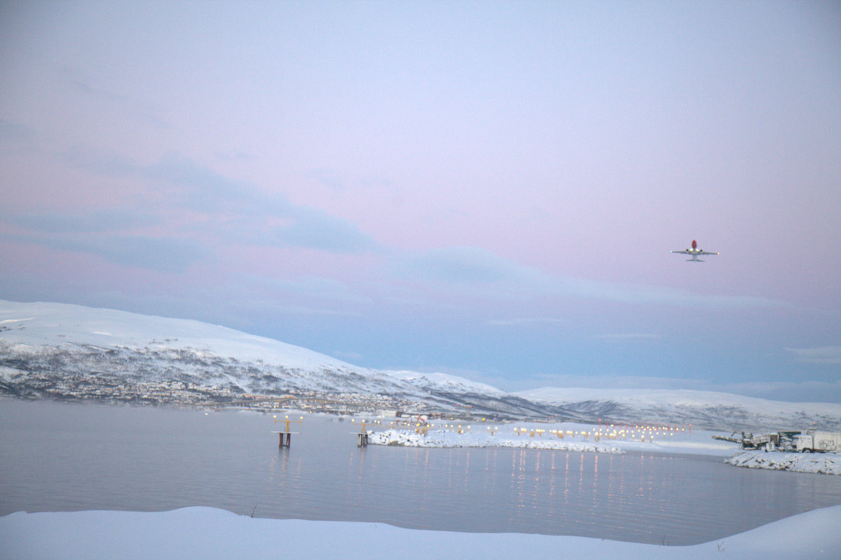 Plane taking off from Tromsø airport. Photo taken at approx. midday in winter.